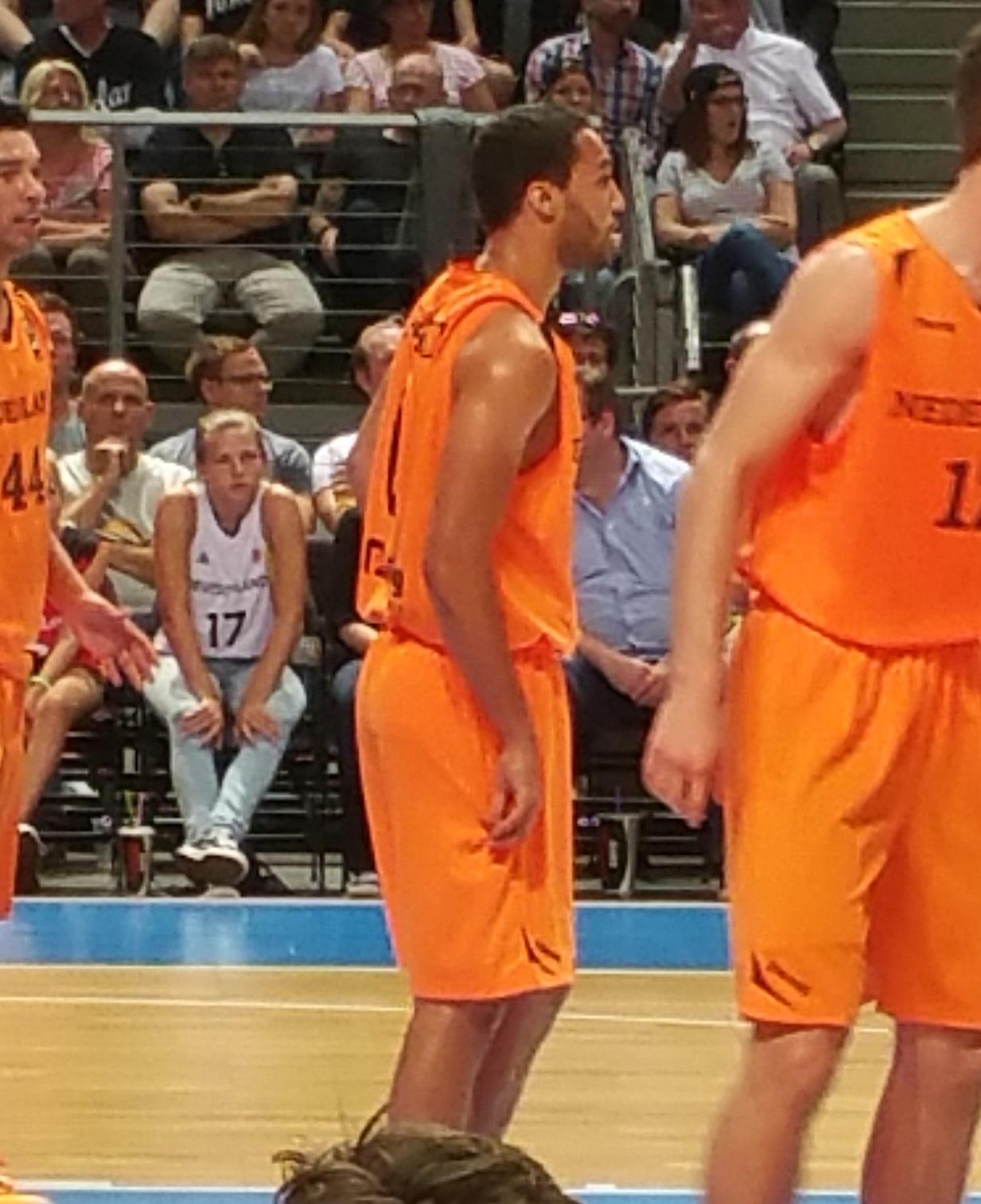 Yannick Franke during EuroBasket 2017 qualification